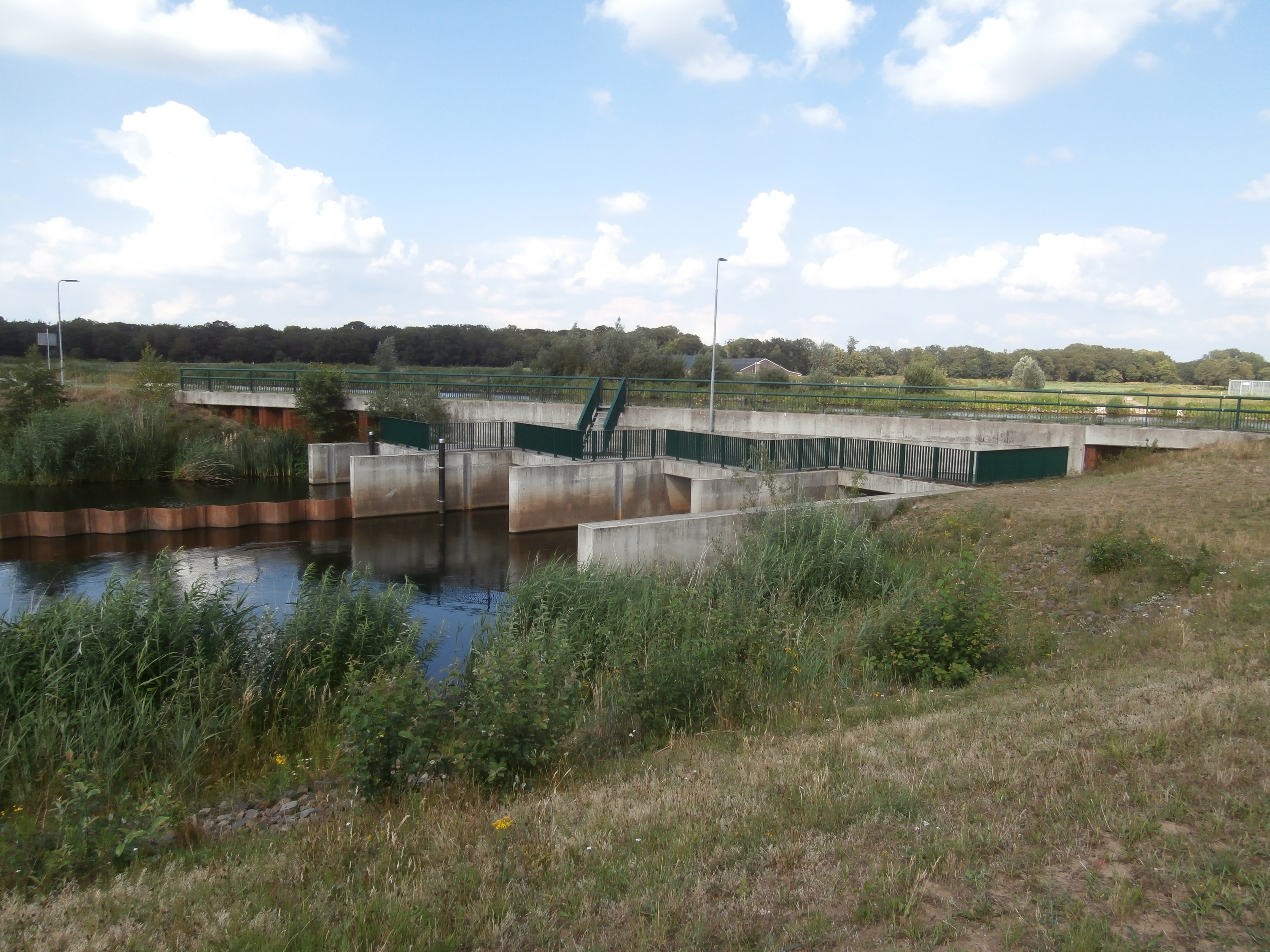 The Aa as it dives below the Maxima Canal. The Maxima canal is visible through the handrail on the dyke. The concrete jutting out into the Aa denotes the four culverts that lead below the Maxima Canal. On this side the dyke is concrete faced and protected by weathering steel.